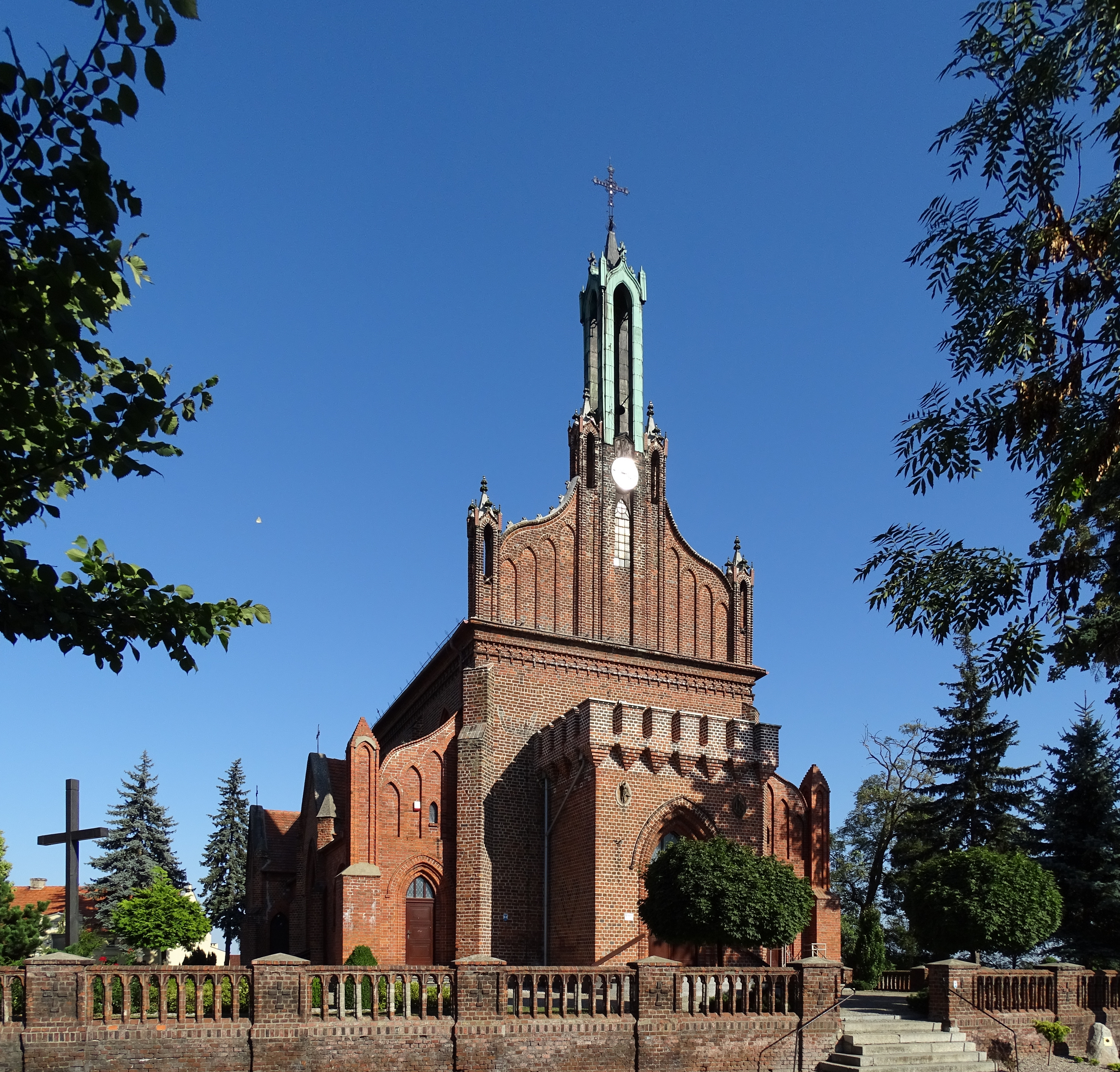 Miłosław, Greater Poland, church of Saint James from 1620.